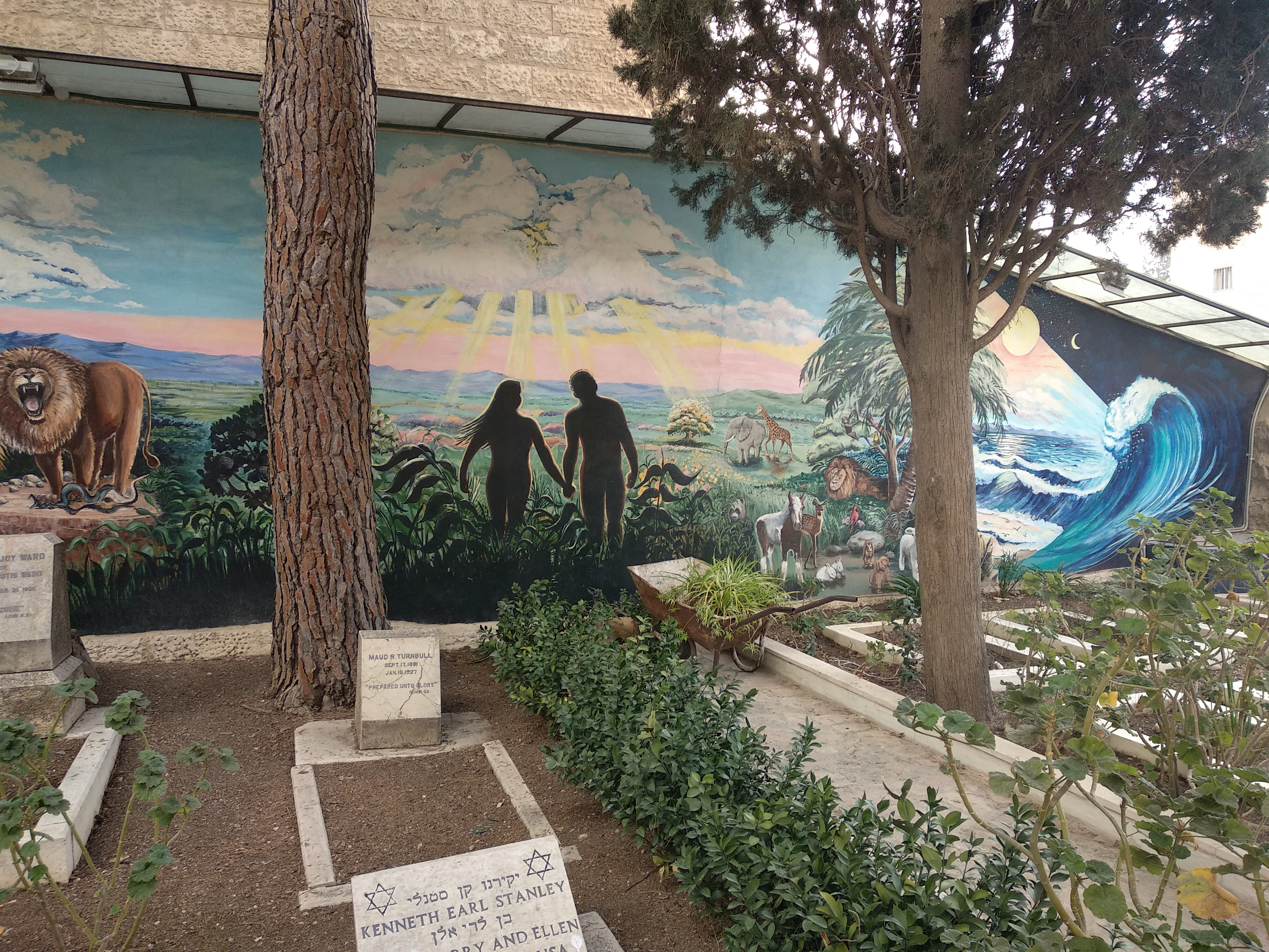 Alliance Church International Cemetery, Jerusalem